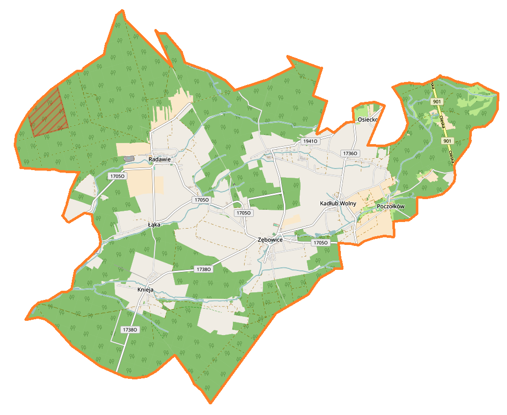 Location map